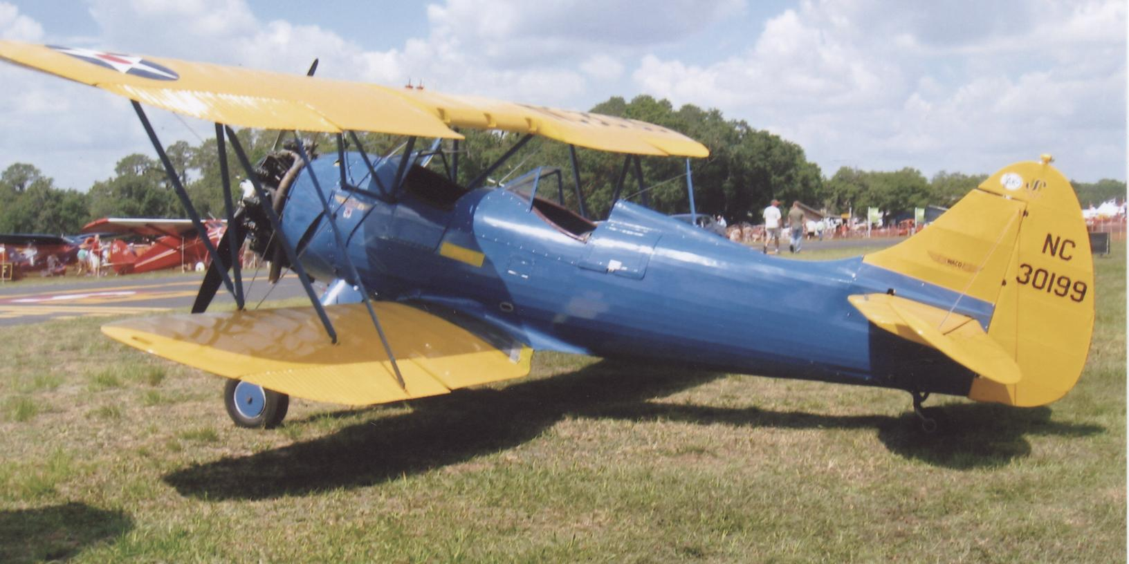 Waco UPF-7 NC30199 at Lakeland Florida